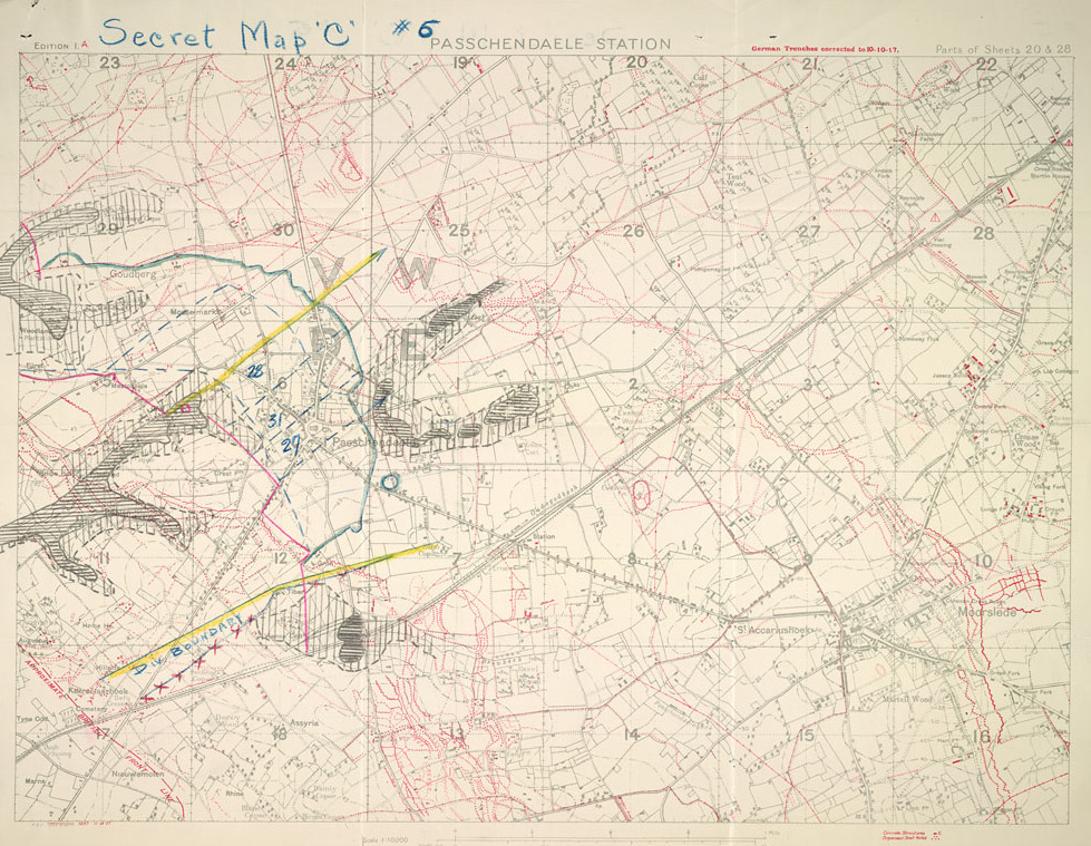 1:10000 scale map. Secret map "C" #6 Au verso: 16, 6th Cdn. Inf. Bde. MAP "C" 30/10/17, readjustment of boundaries and amended objectives. .